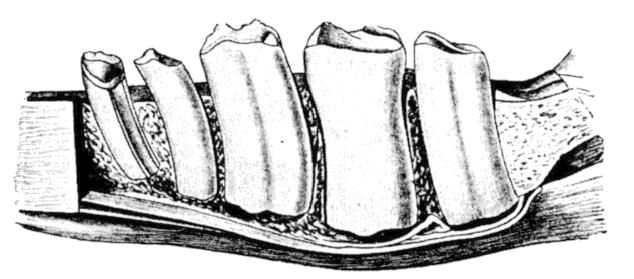 Fig. 108.—Section of lower jaw with the teeth of Orycteropus. × 2. (After Owen.)